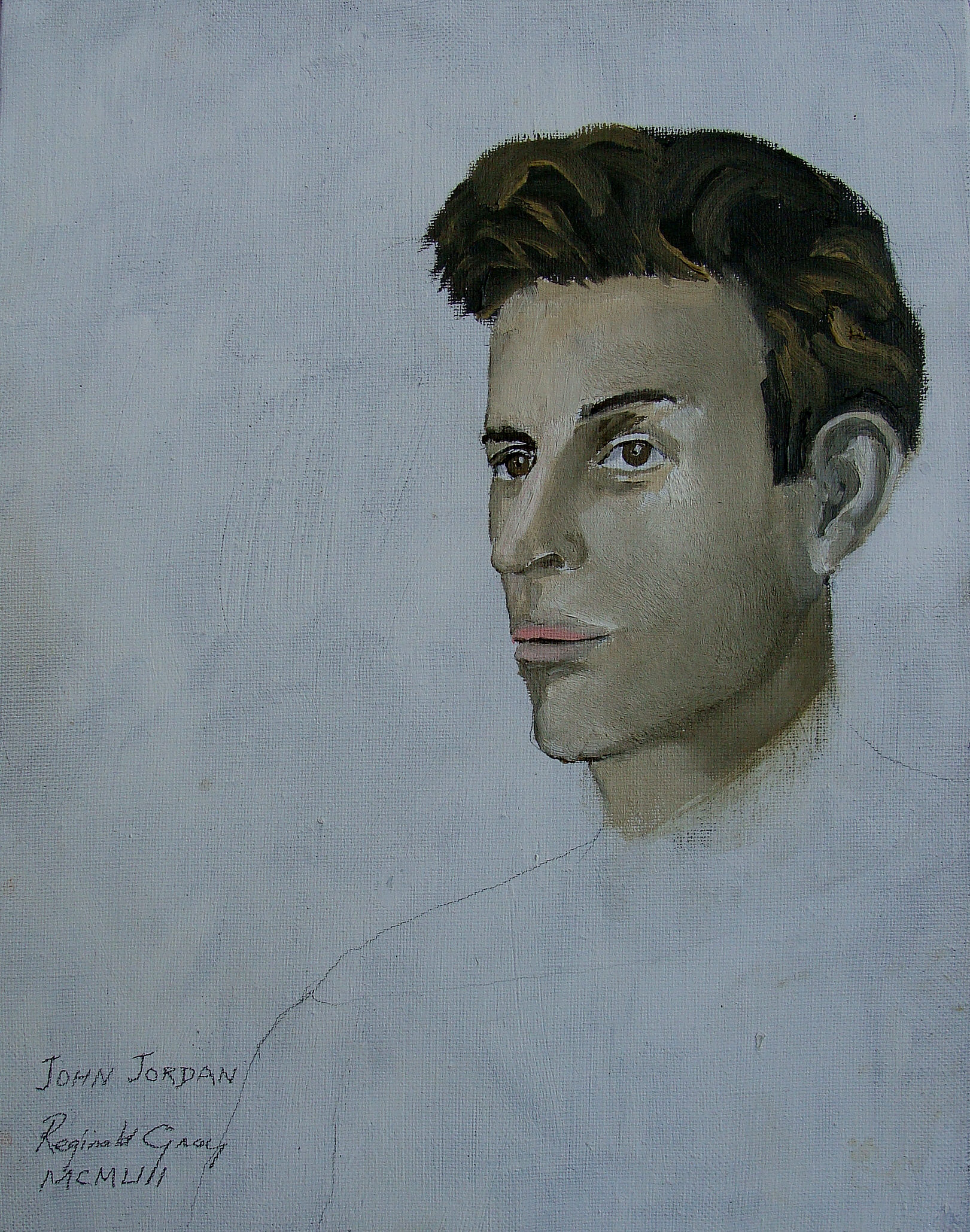 Unfinished portrait by Reginald Gray of Irish poet John Jordan, 1953. Collection Dublin Writers Museum, Ireland - 27 × 35 cm. Egg tempera and marble dust on canvas.